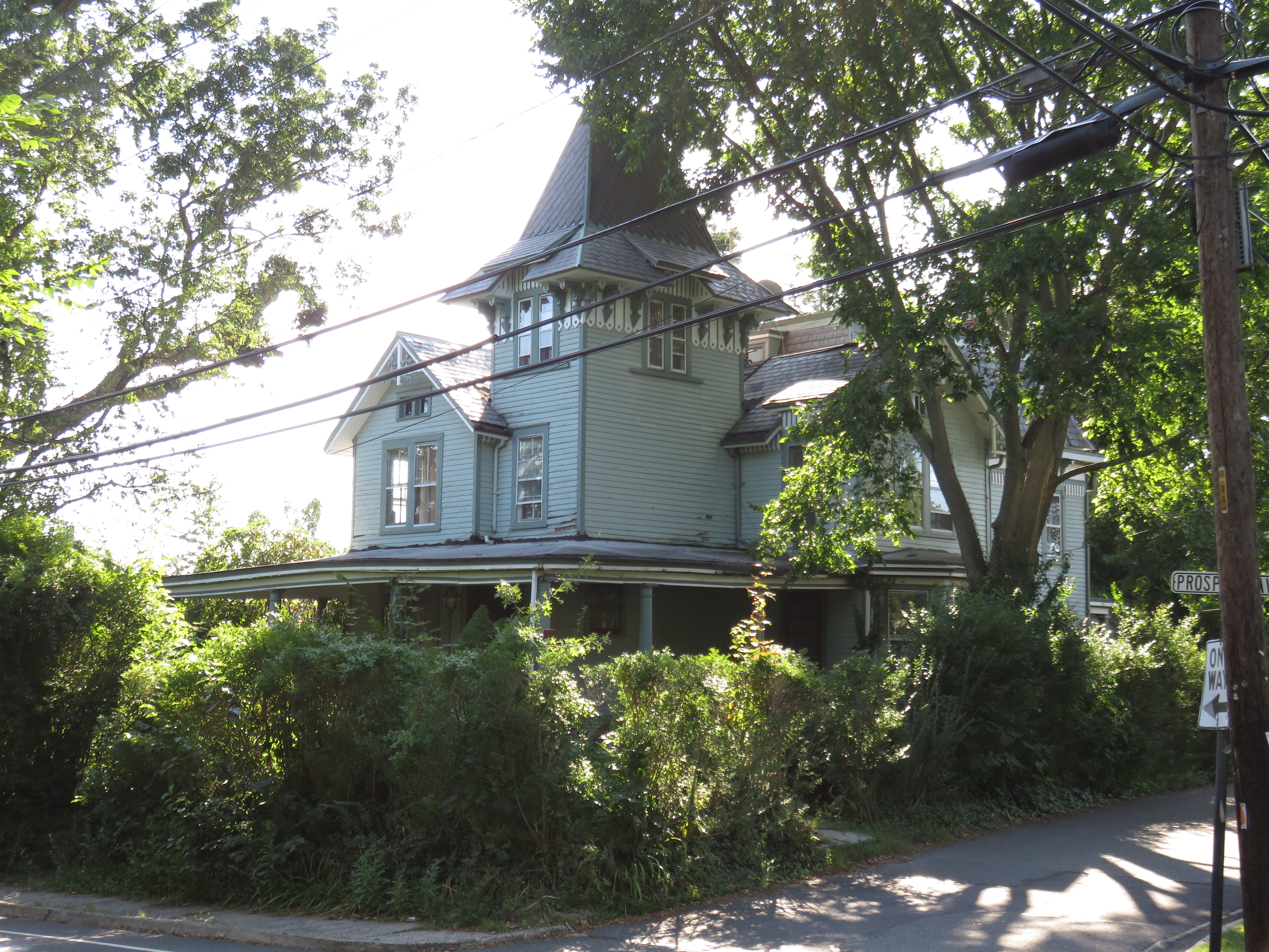 House at 176 Prospect Avenue, Sea Cliff, New York